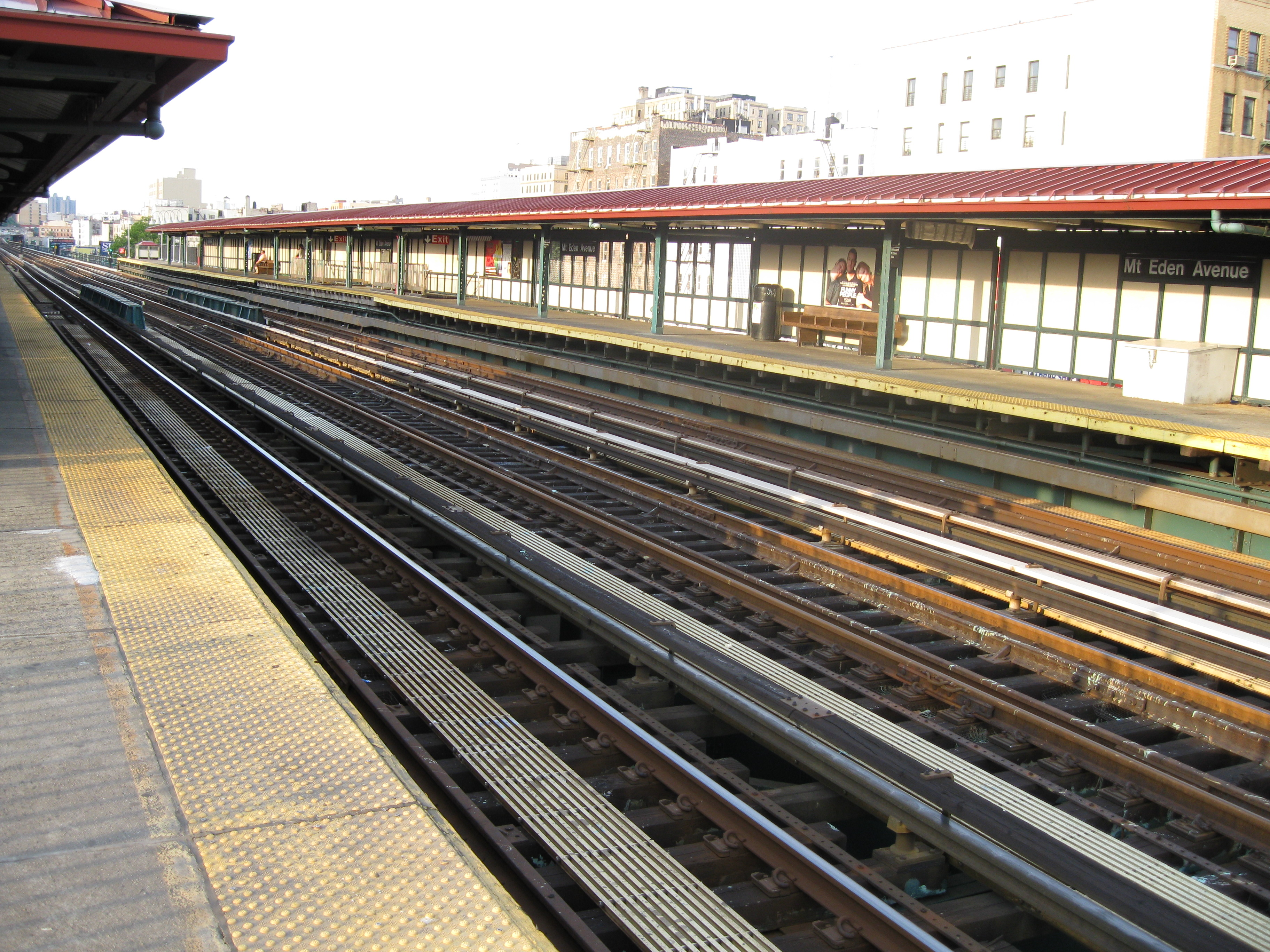 View of the train tracks (both uptown and downtown) at the Mt. Eden Avenue subway stop on the 4 line in the Bronx.